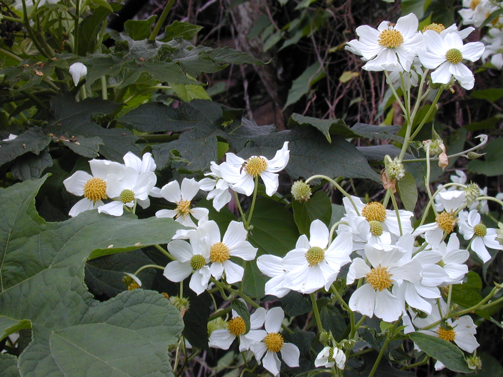 Montanoa hibiscifolia (flowers and fruit). Location: Maui, old Kula Rd